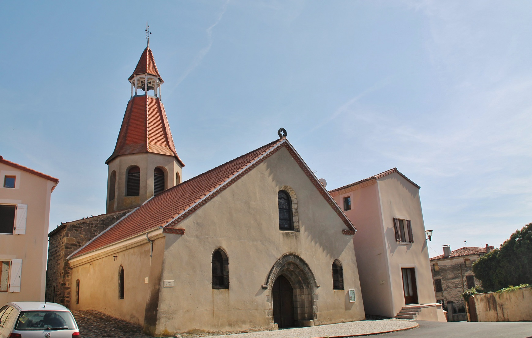 église St Gal